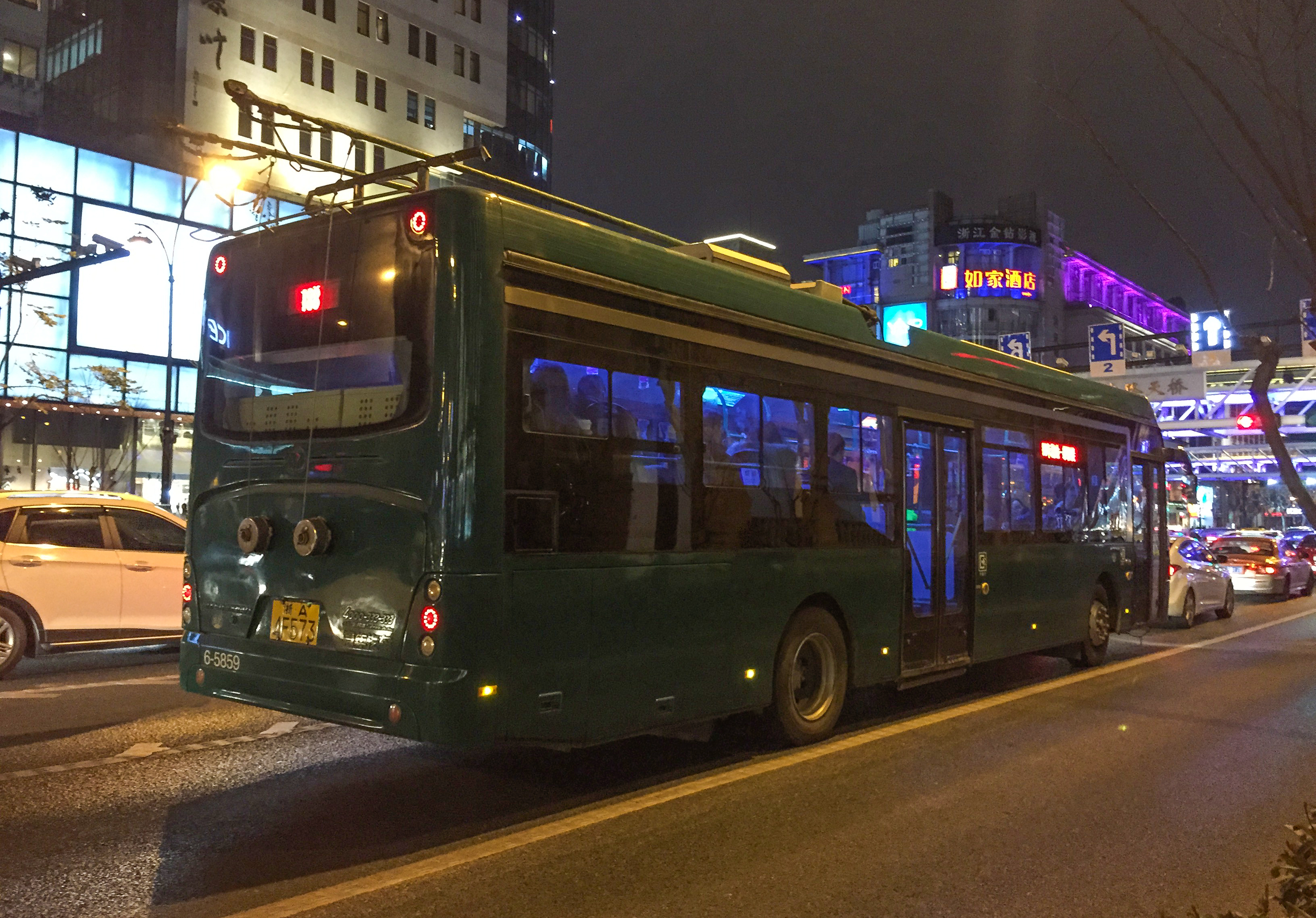 A Neoplan trolleybus! Something different from Beijing's.